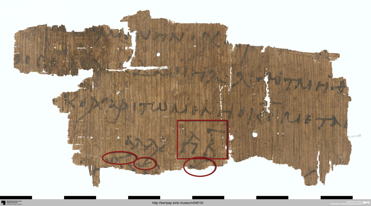 Verso side of the papyrus fragment (Berlin, Staatliche Museen P. 21319). The fragment found in Egypt belonged to a tropologion, the part marked in red shows a modal signature which indicates the mode "echos plagios devteros" of the following Theotokion (a troparion in honour of the Mother of God). This signature and some sporadic signs of an early ekphonetic notation are in fact the only form of musical notation, the scripture can be classified as semi-cursive book script.